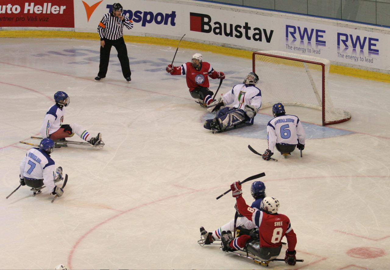 Stig Tore Svee (red no. 8) and Helge Bjørnstad, in Norway's match against Italy, in 2009 IPC Ice Sledge Hockey World Championships (Ostrava, Czech Republic).